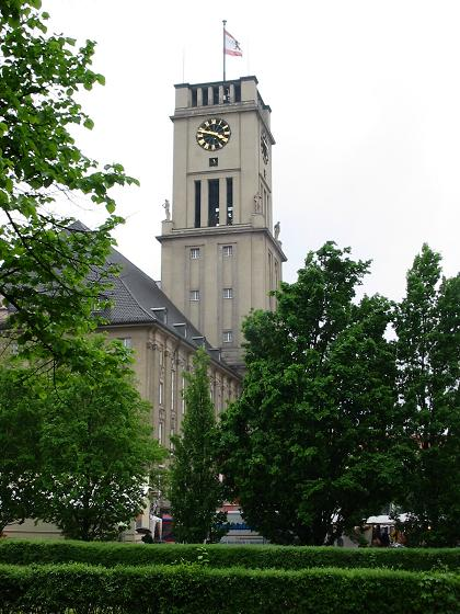 Townhall of Berlin-Schöneberg